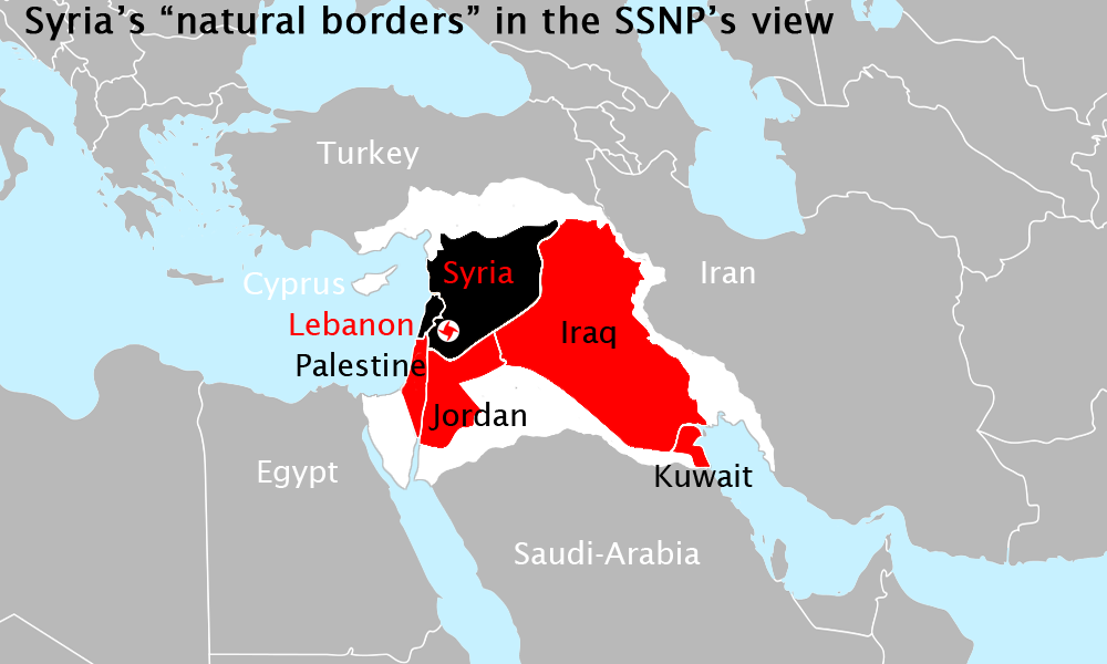 simplification of the "General map of natural Syria" seen on the website of Homs' SSNP branch (Syrian Social Nationalist Party) black - Syria and Lebanon red - other countries of the "Fertile Crescent" (Jordan, Palestine, Iraq with Kuwait) white - claimed terrorities from other neighboured states (Turkey, Iran, Saudi-Arabia, Egypt, Cyprus)